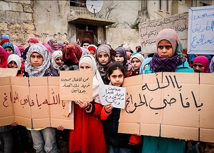 People and Children of Two Syrian Shiite towns, Al-Fu'ah and Kafriya attempted to set up a campaign entitled "We want bread O God" because of Starvation and famine Arising from blockades of food by Takfiri terrorists Over 2 years.